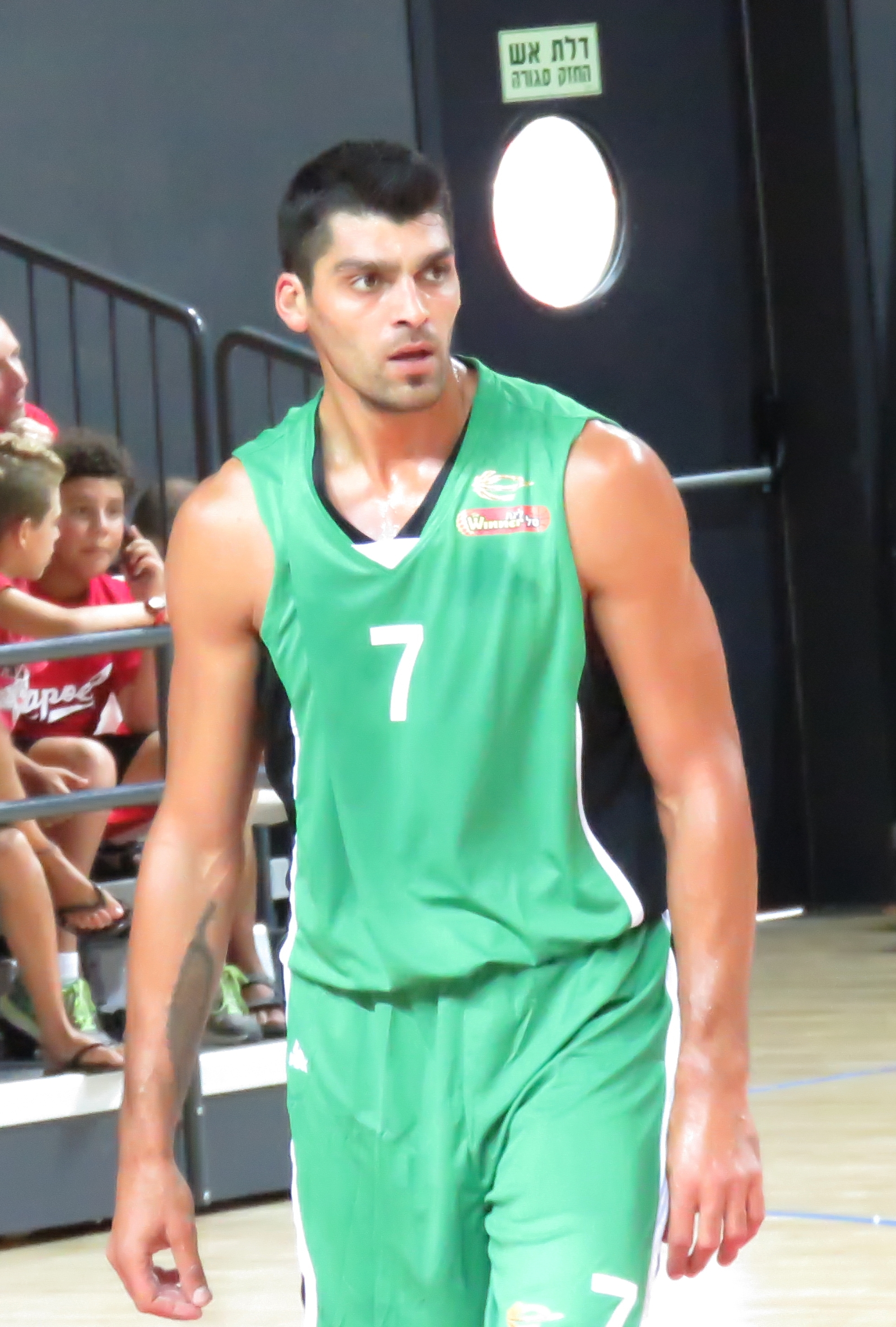 Hapoel Eilat vs. Maccabi Haifa B.C., 25 September, 2015